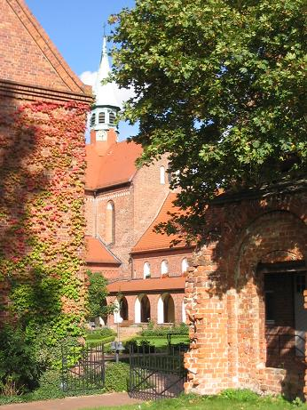 Courtyard garden and St. Marien church (rear) — at the Klosters Lehnin (Lehnin Abbey). A German Brick Gothic era monastary in Landkreis Potsdam-Mittelmark, Brandenburg.